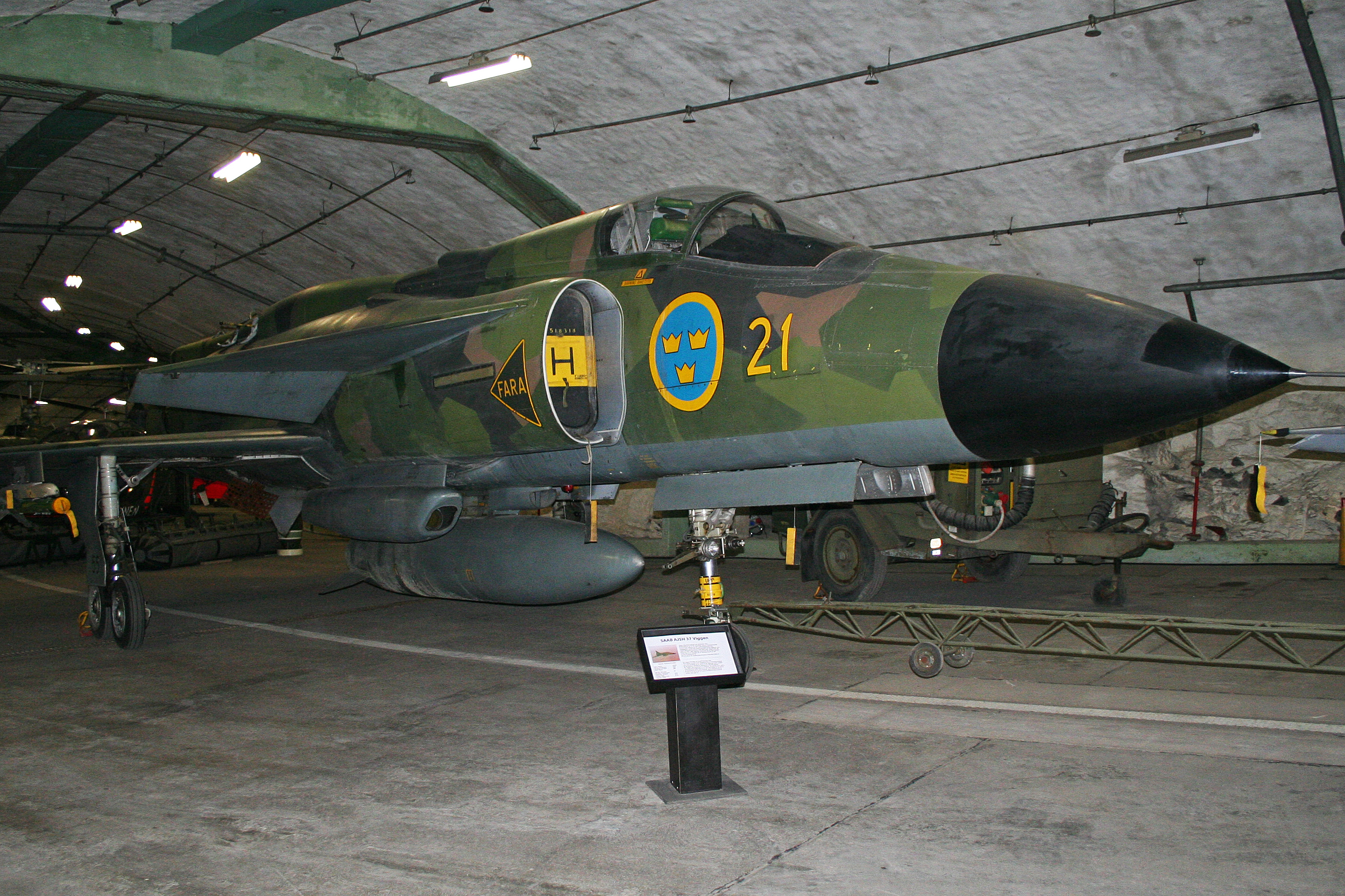 In classic splinter camo and carrying F 21 unit markings. msn 37-911. Displayed in the entrance tunnel. The Aeroseum, Gothenburg Save, 02-6-2012